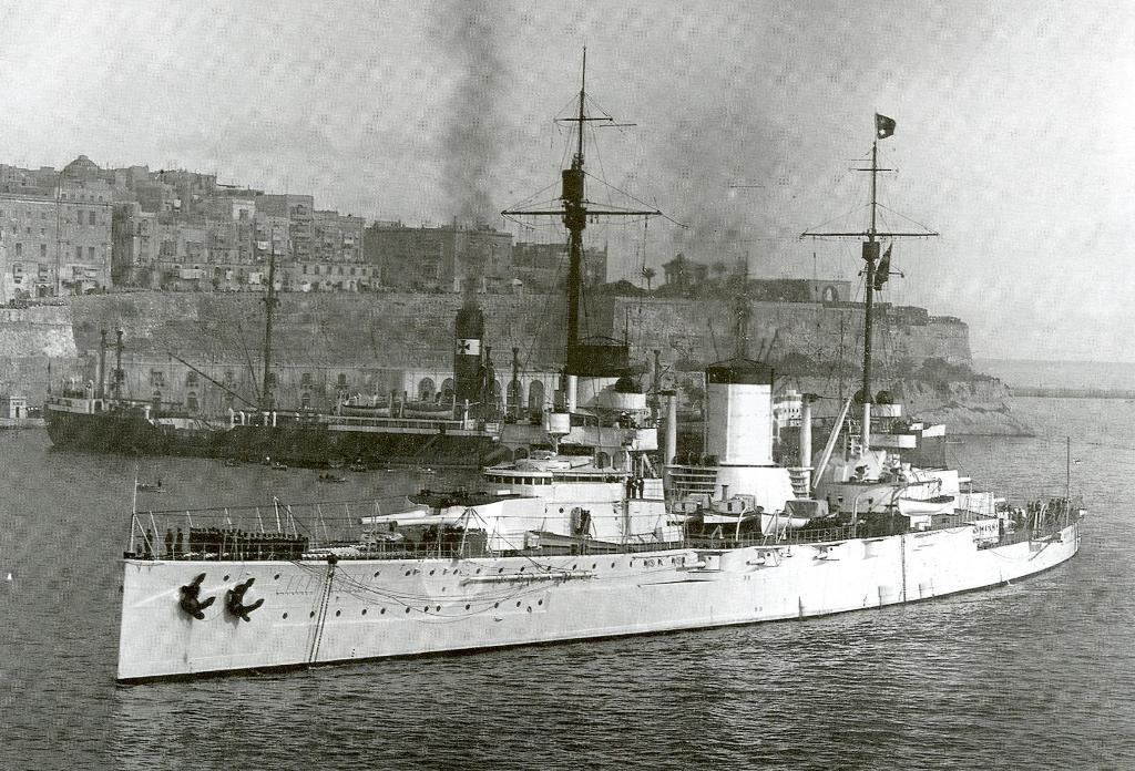 Turkish battlecruiser Yavuz in Malta.